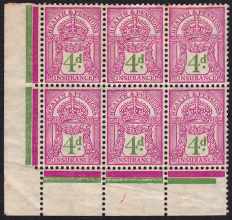 British 1925 4d health and pensions stamp.